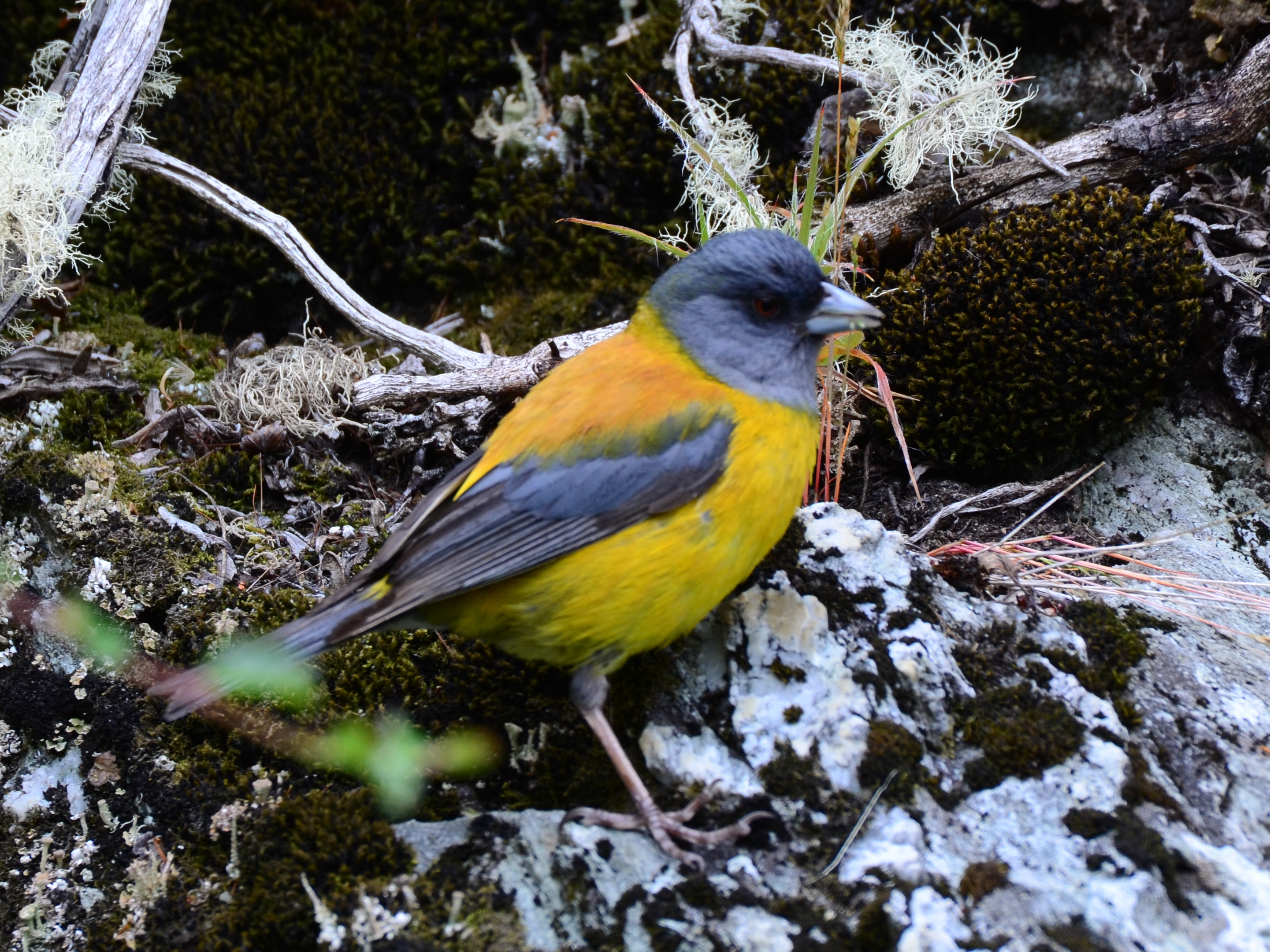 A Patagonian Sierra Finch at Tierra del Fuego National Park, Argentina.